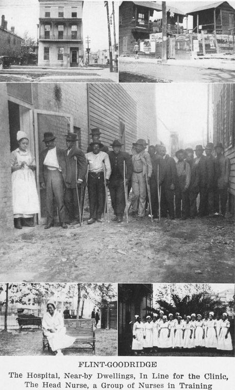 "Flint - Goodridge; The hospital; Near-by dwellings; In line for the clinic; The head nurse; A group of nurses in Training" Note: Flint-Goodridge was a hospital for "Colored" people in the era of racial segregation in New Orleans